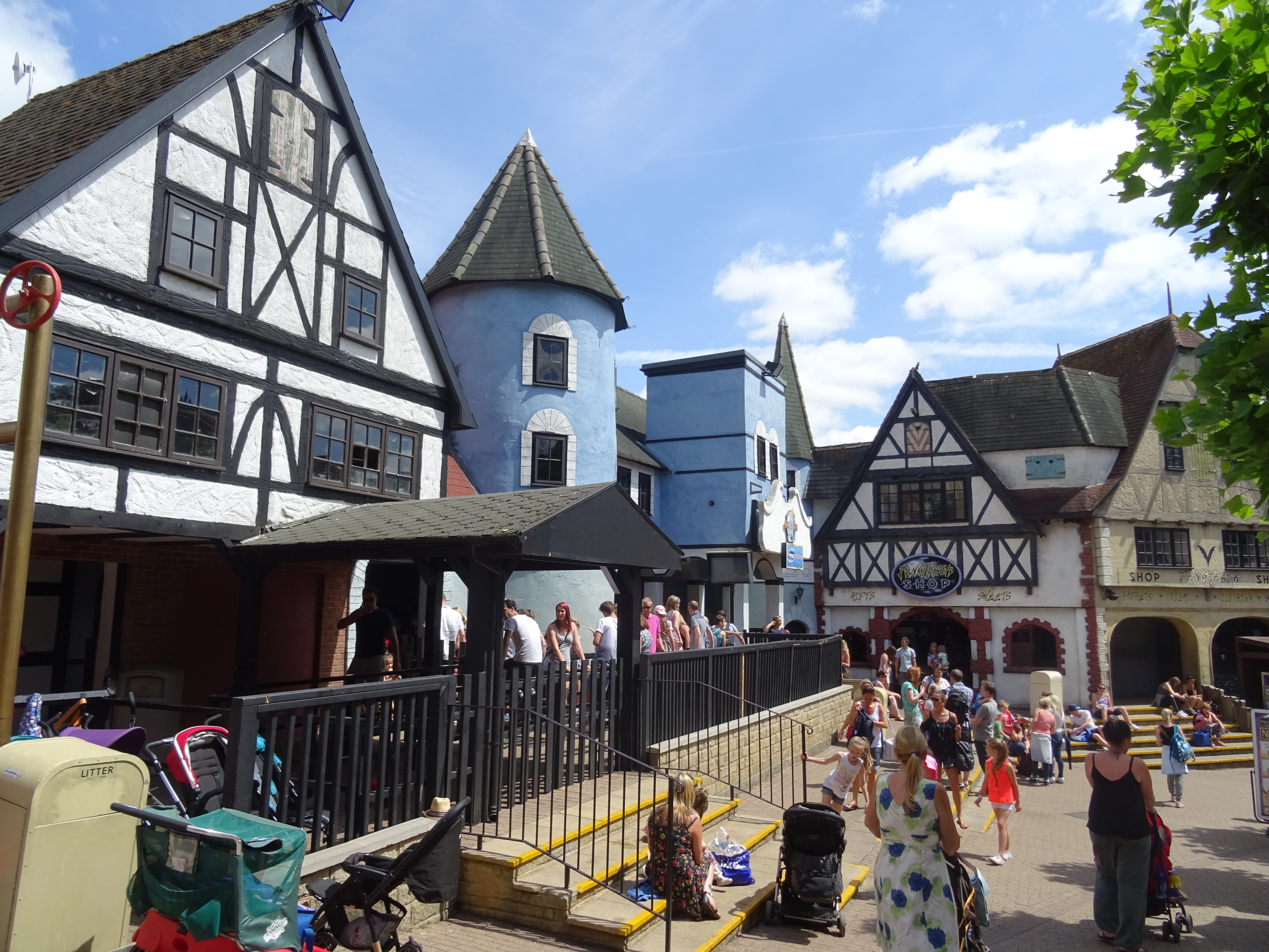 Exterior of the Bubbleworks Dark Ride at Chessington World of Adventures pictured in 2015.